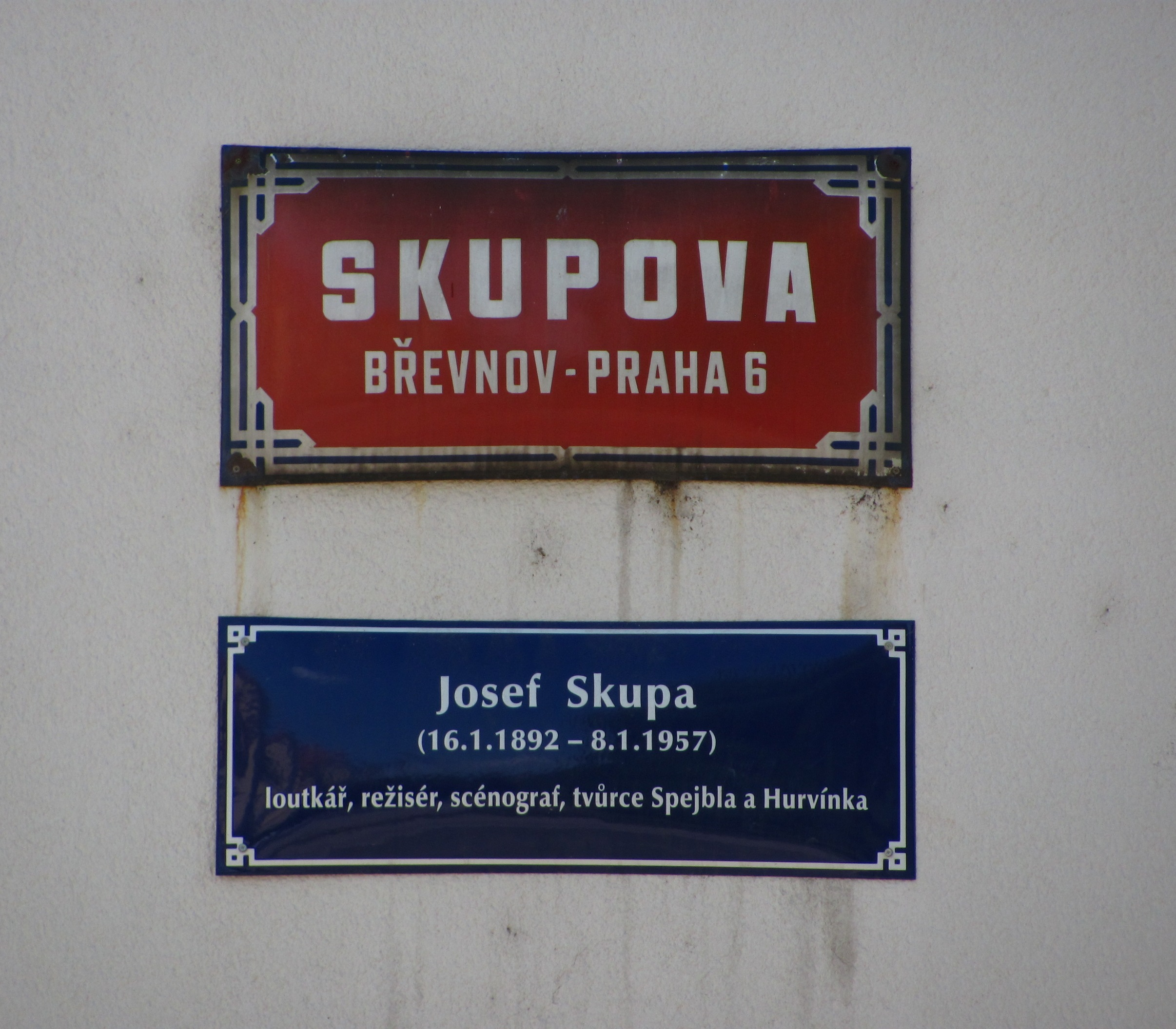 Street in Praha 6 - Břevnov, named after Josef Skupa, Czech puppeteer, intellectual father of Spejbl and Hurvínek